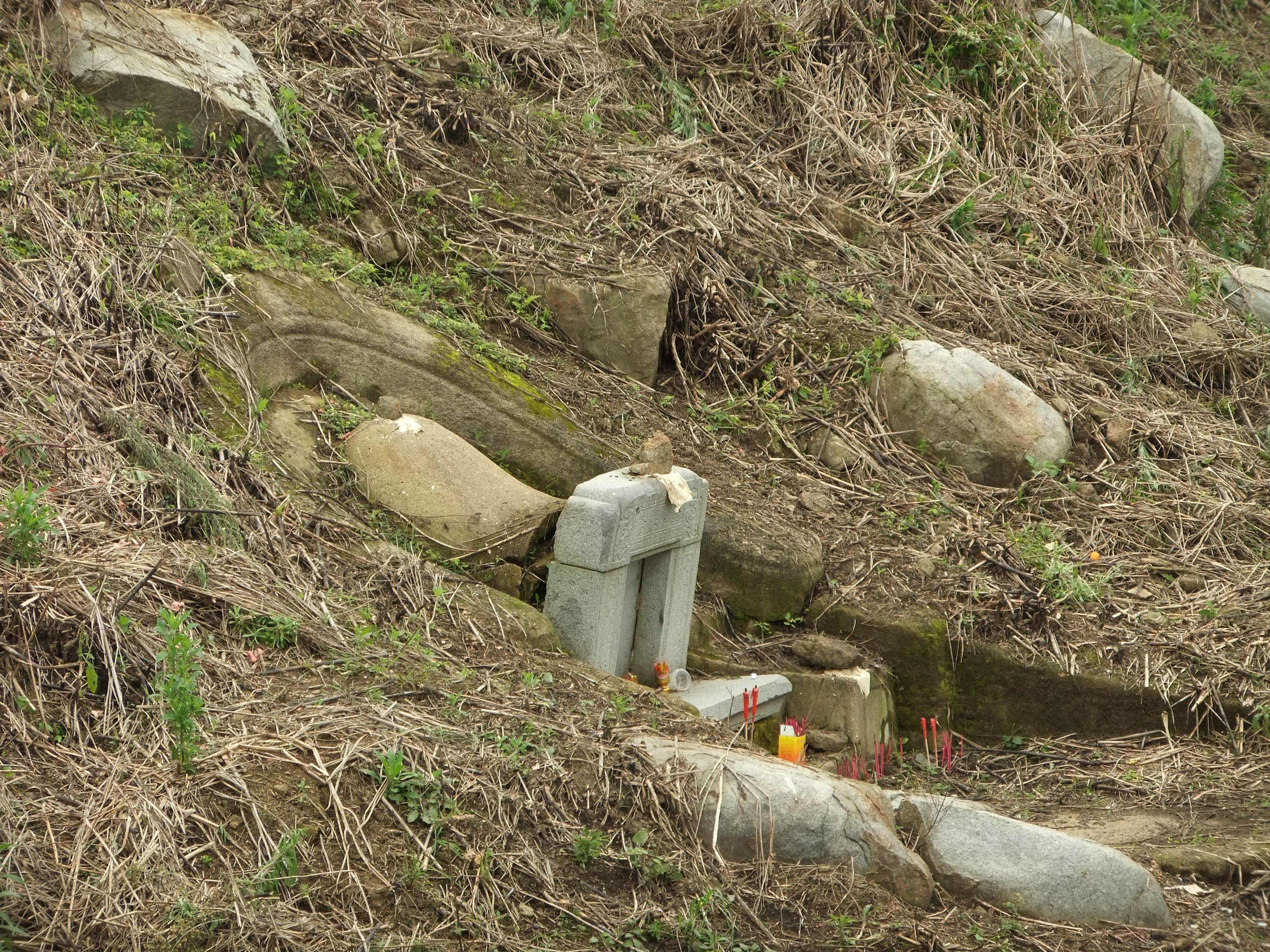 A tomb high on the slope of Jin Mt, above Gaobei Village (Gaotou Township, Yongding County, Fujian). The design is certainly reminiscent of the "turtle-back tombs" of Fujian's coast; however, this looks more like a "half turtle" (the front part only). The difference is design is perhaps due to different traditions - or maybe it's simply because the tomb here is on a slope.